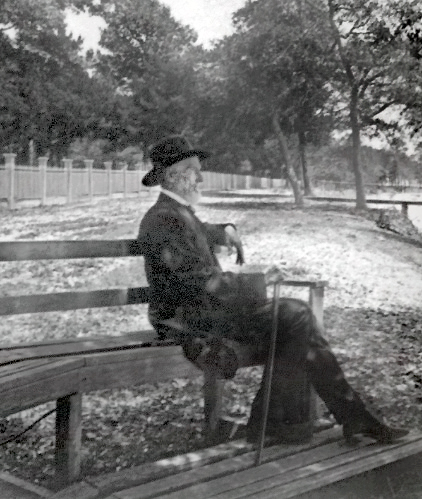 Jefferson Davis around 1885, seated, full-length, on bench facing right, Beauvoir, Biloxi, Miss.